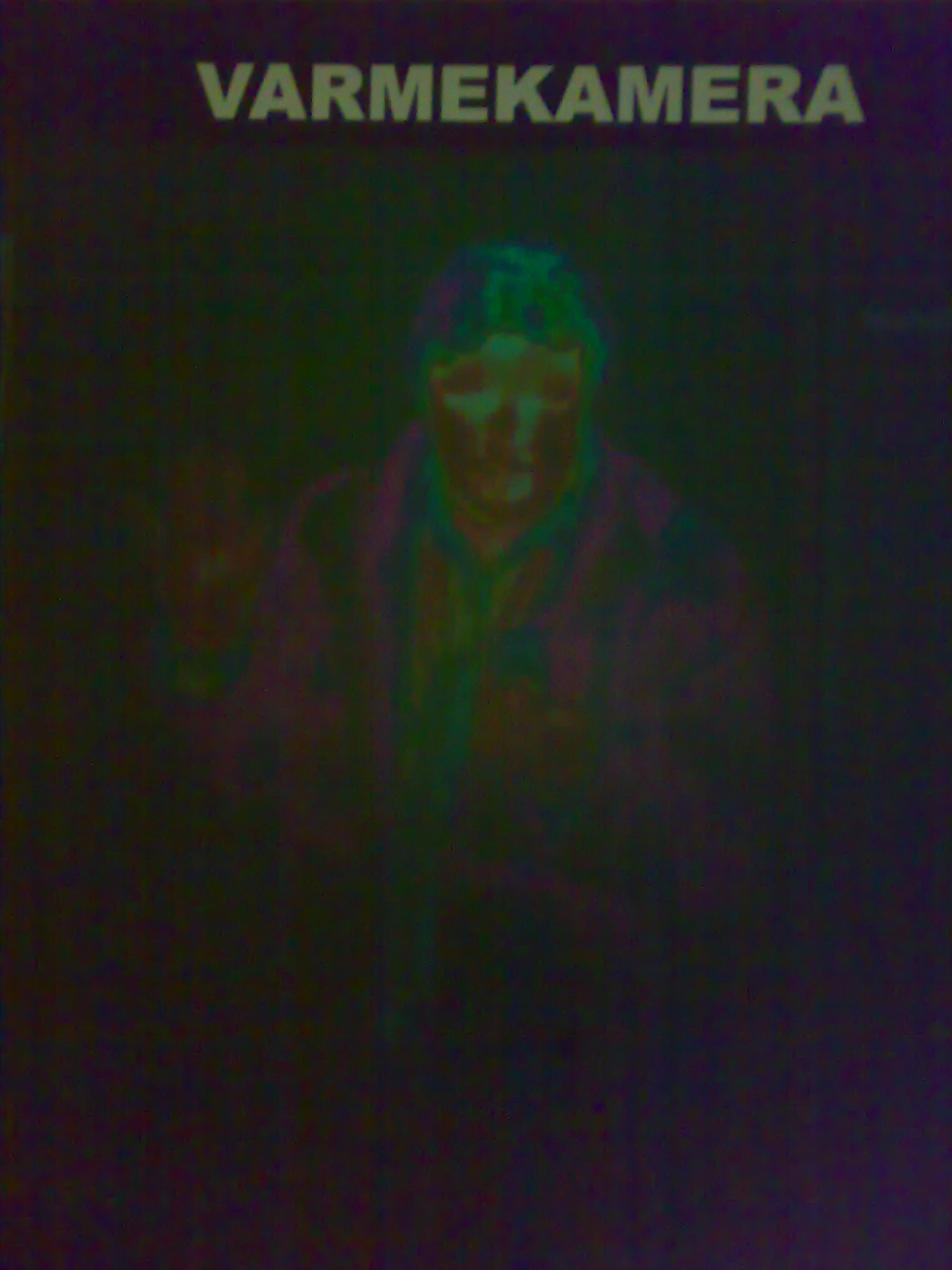 Thermography at the Technical Museum, Oslo, Norway